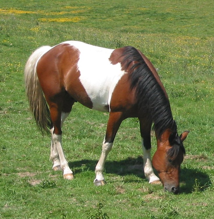 Paint horse, Tobiano (de), Paint horse, Tobiano (en), Paint horse (fr), Paint horse (nl), T’chfau d’indyin (wa)